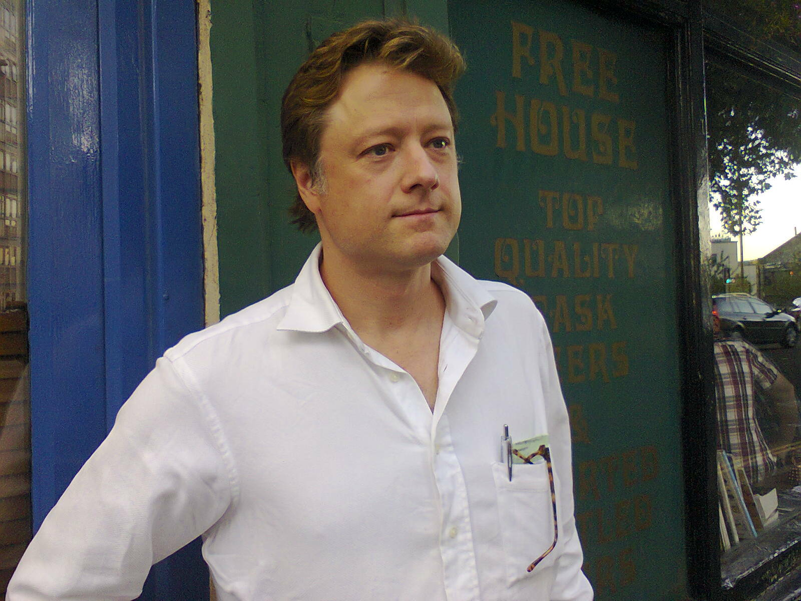 Author Rob Magnuson Smith outside the Bag O Nails pub, Bristol